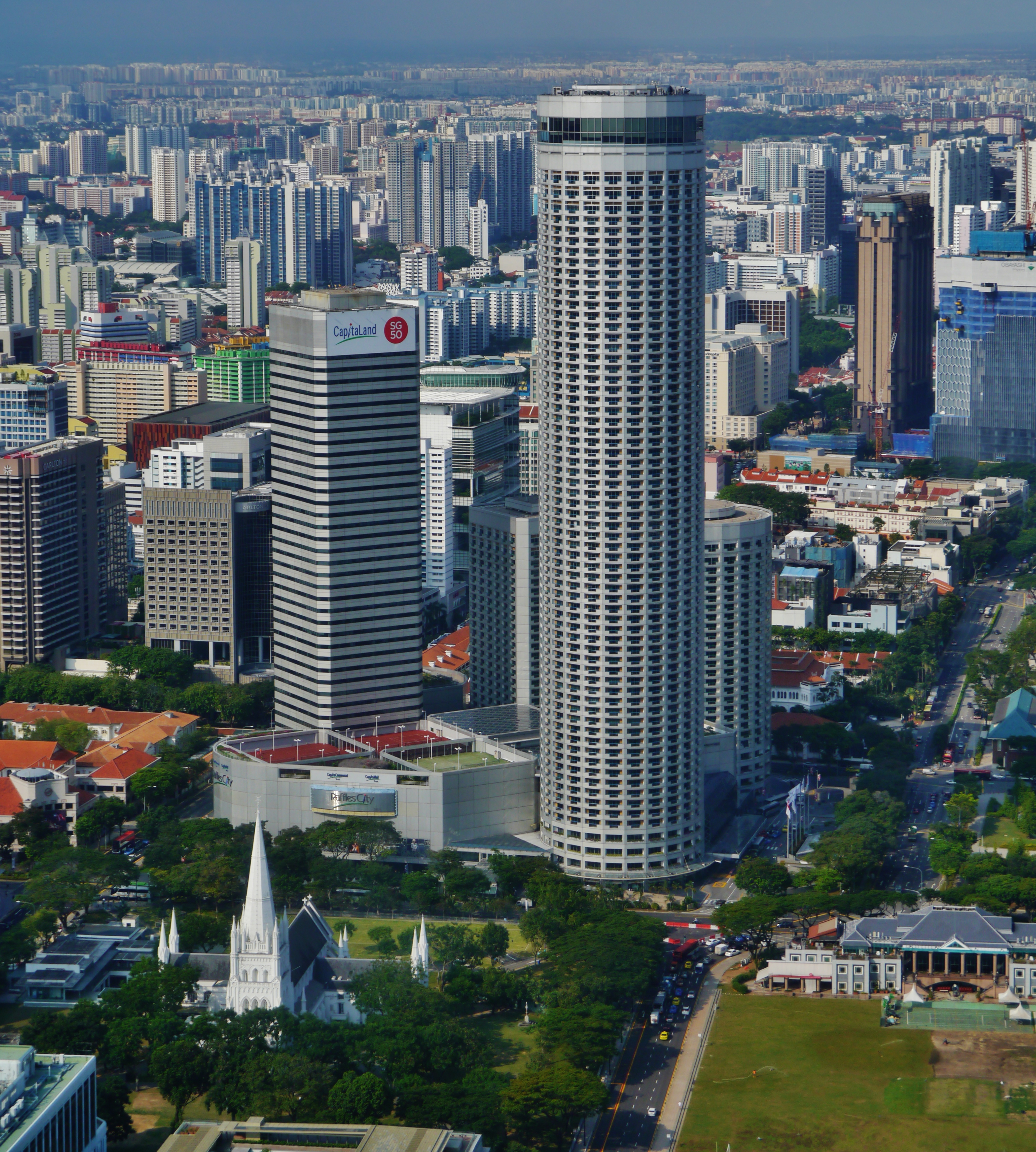 View from UOB Plaza to the Swissôtel the Stamford, Singapore